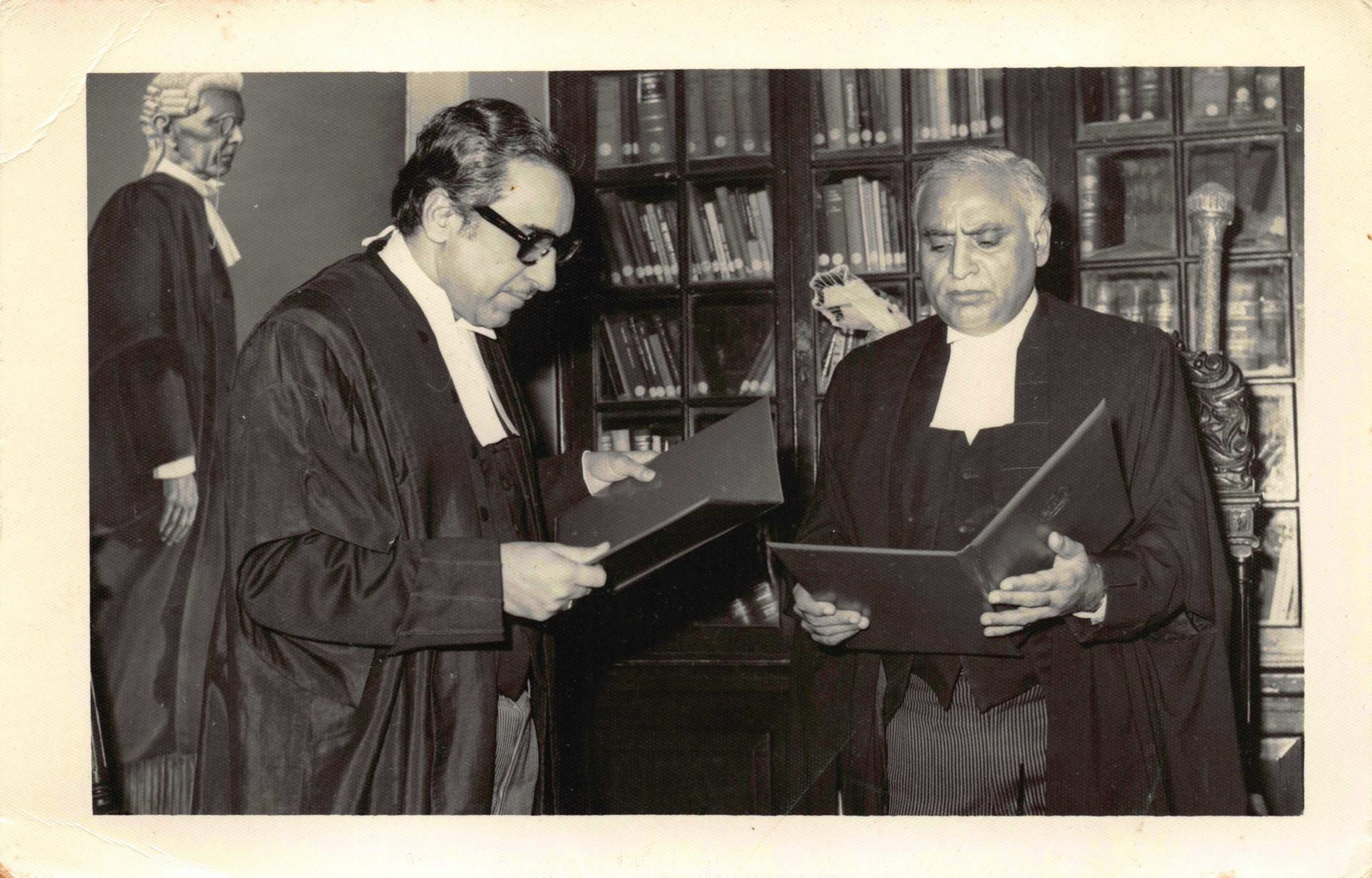 Taking Oath as Judge Sindh High Court 1975